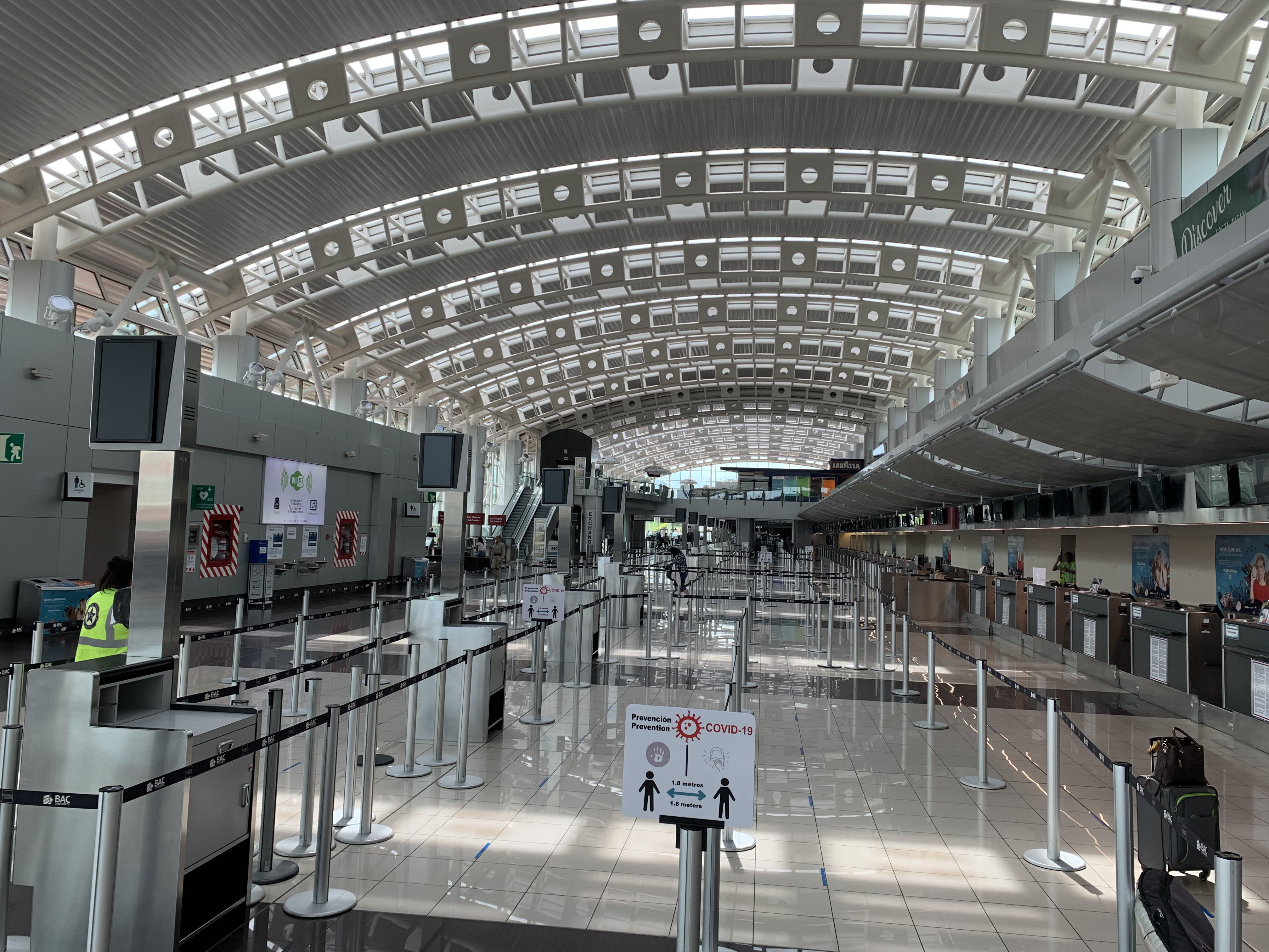 A deserted Terminal B at San Jose International Airport in San Jose, California, on June 3, 2020.